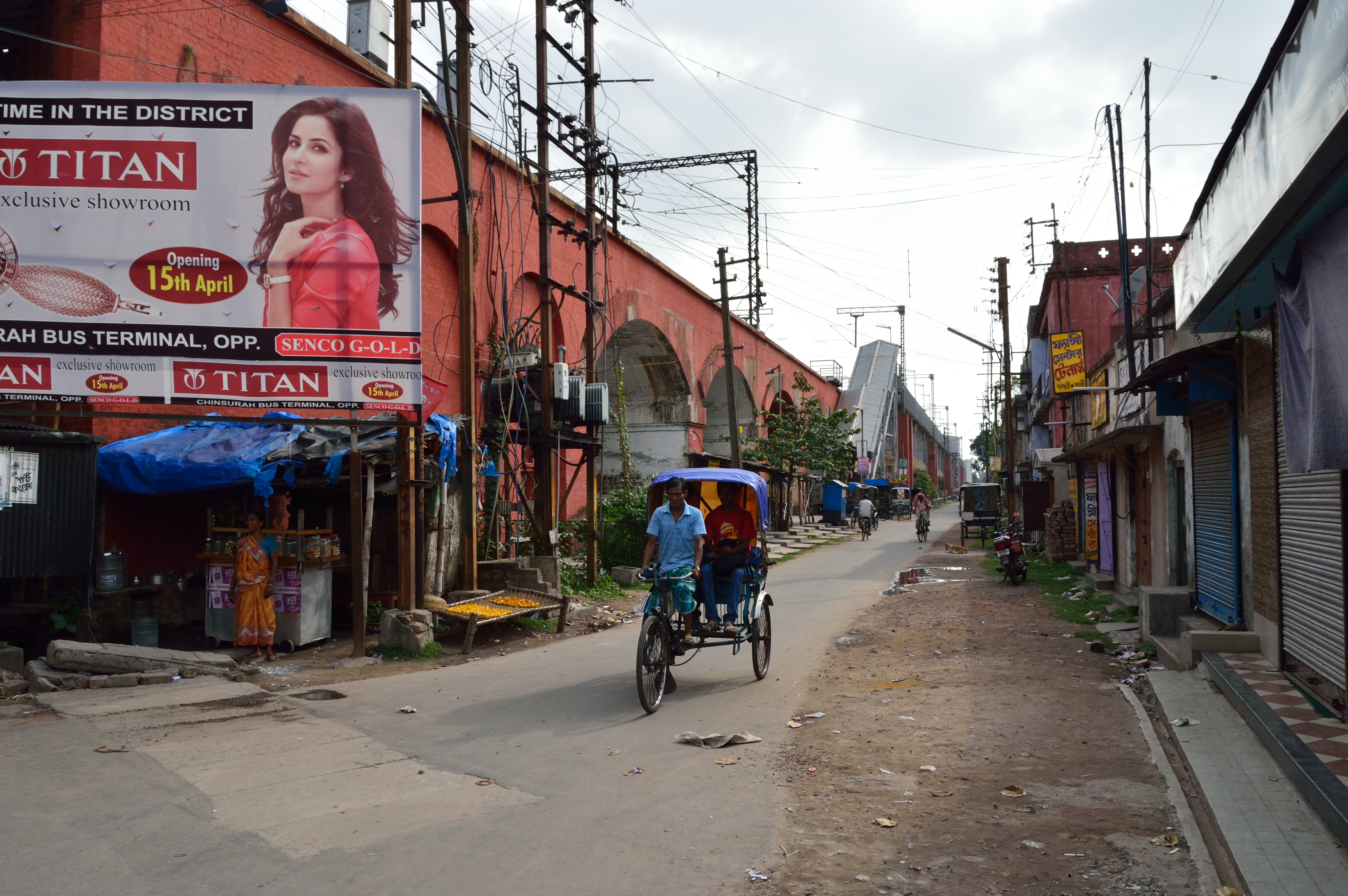 Photographed in Hooghly, West Bengal.